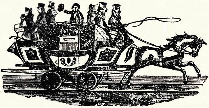 The Union horse-drawn coach. Crop of an advertisement for the service which started on the Stockton and Darlington Railway in October 1826, printed in the "Durham County Advertiser" on 14 October 1826